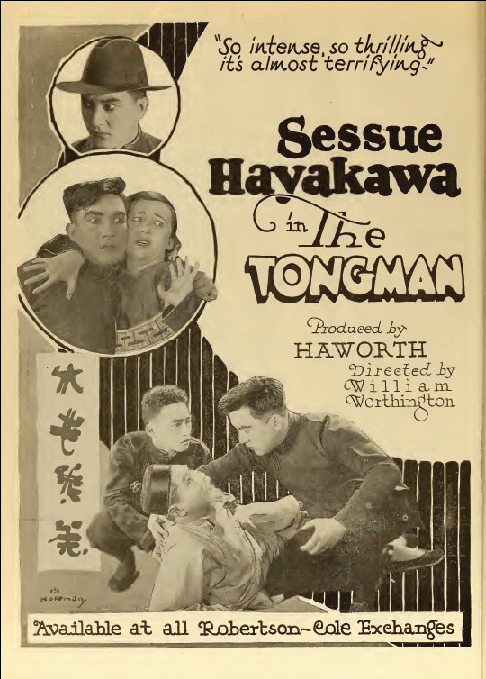 Ad for Sessue Hayakawa in The Tong Man aka The Tongman (1919).